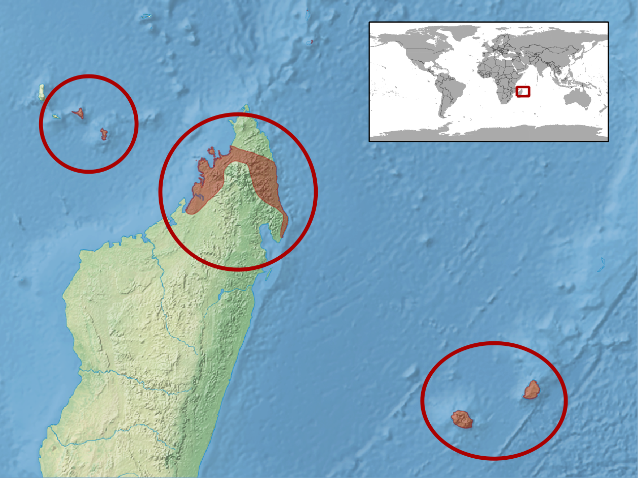 geographic distribution of Phelsuma laticauda (Native: Madagascar / Introduced: Comoros; French Polynesia (Society Is.); Mauritius (Mauritius (main island)); Mayotte; Réunion; United States Minor Outlying Islands / Present - origin uncertain: Seychelles)